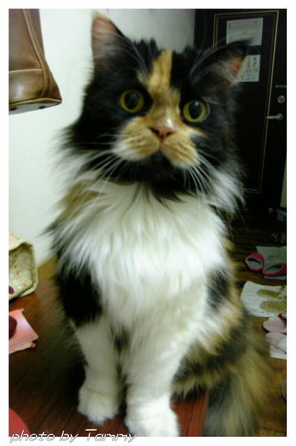 This is a three colors Persia cat.